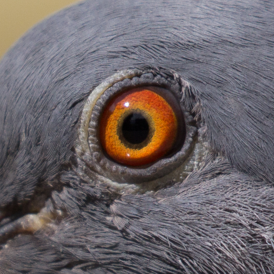 Eye of a rock dove (Columba livia) at Retiro Park, Madrid, Spain.